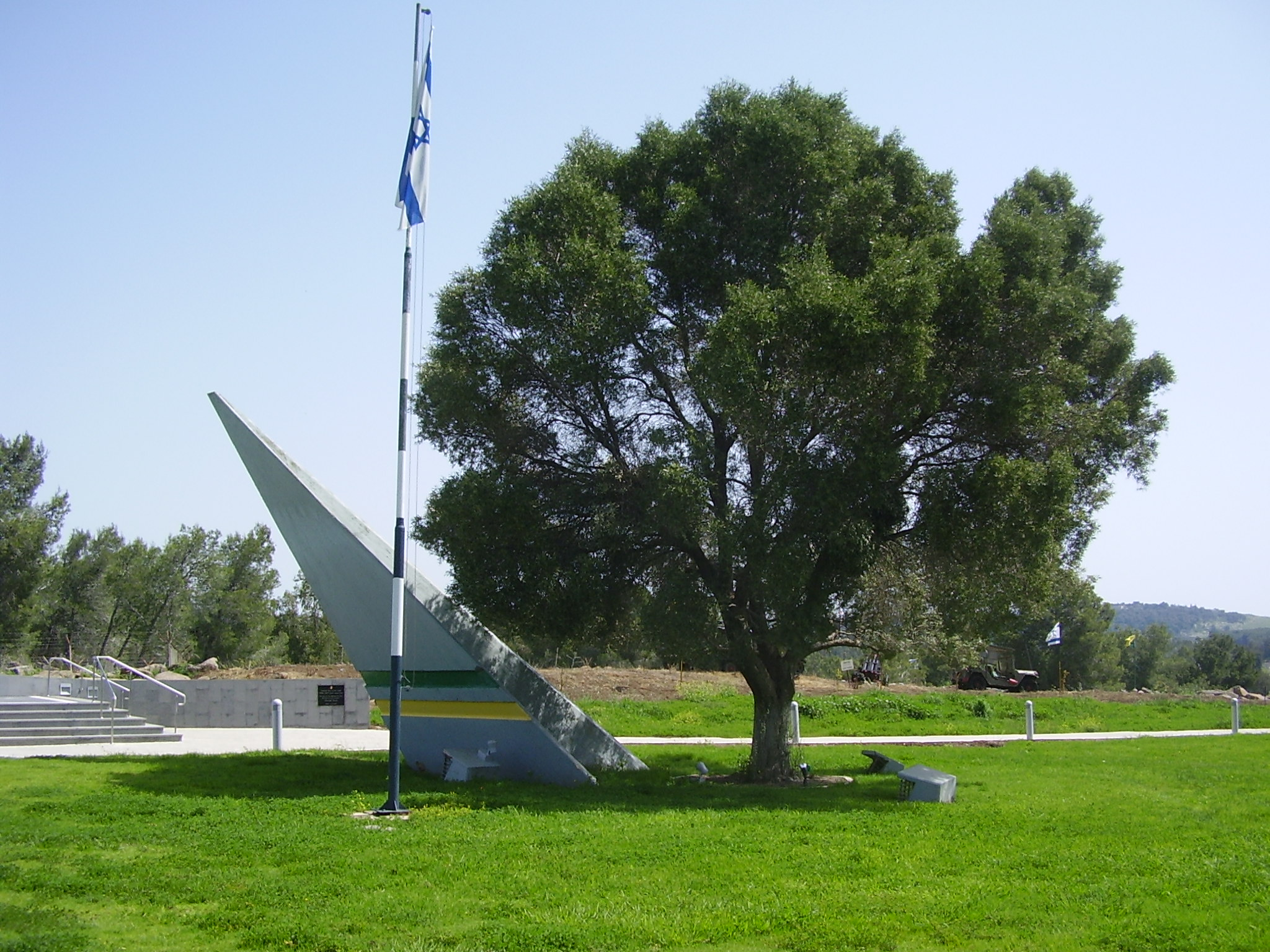 golani tree(olive tree) in golani museum